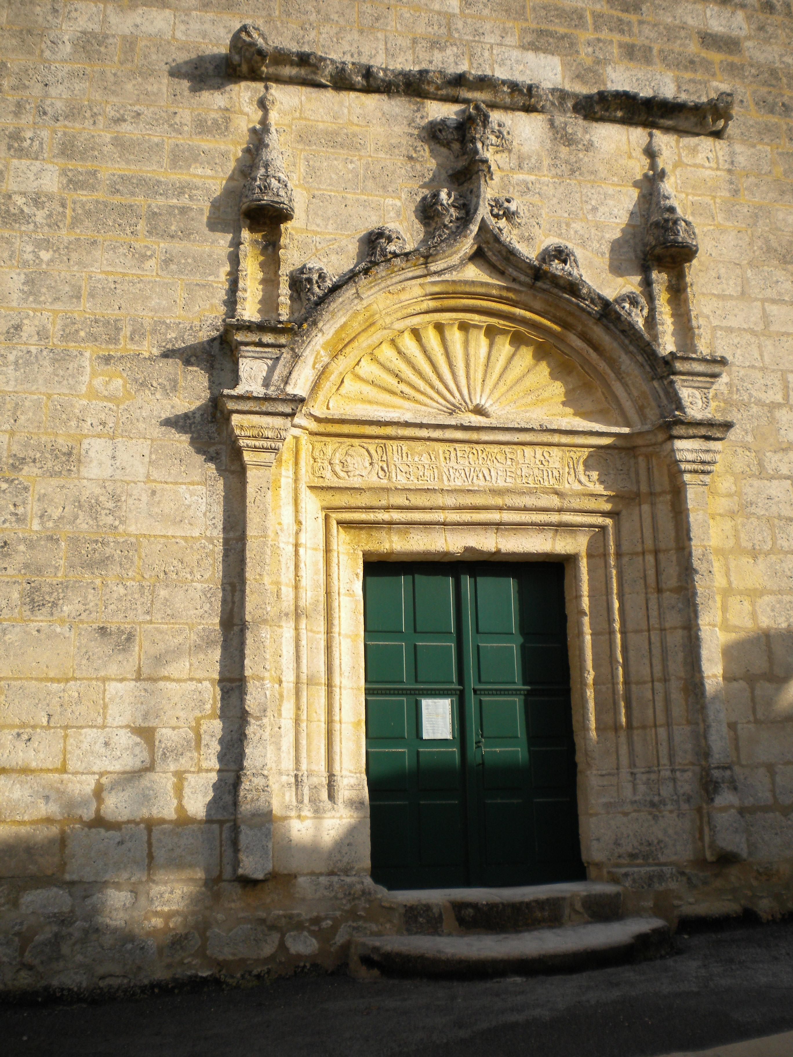 The Renaissance entry to the 16th century village church Notre-Dame de la Nativité in Monsec, Dordogne, France.